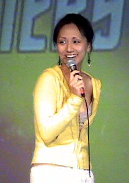 This photo was taken at the Star Trek Convention at the Las Vegas Hilton Hotel on August 8, 2004. Source: Reframing and minor port-processing by 00:01, 20 April 2007 (UTC)